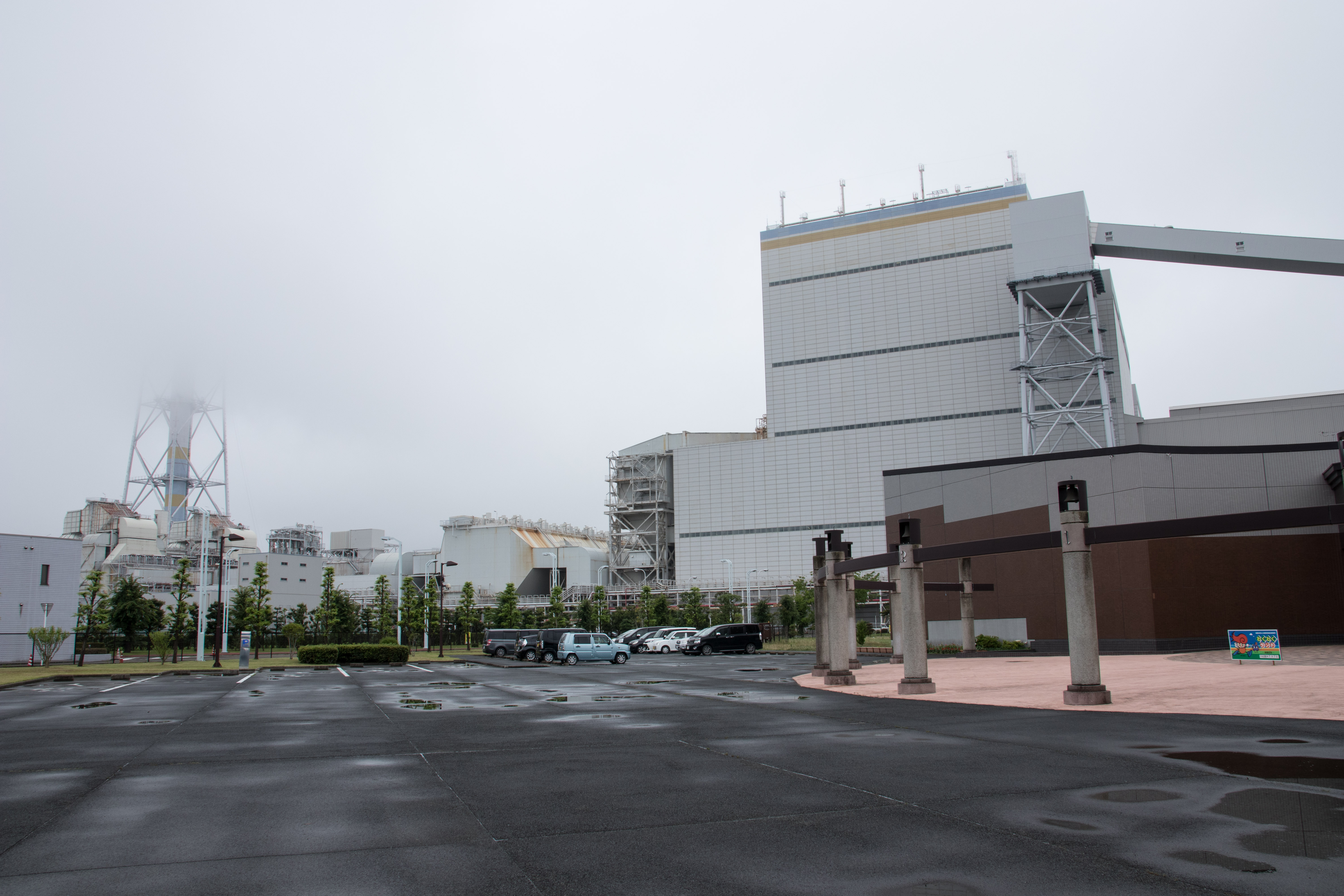 Shinchi Thermal Power Plant, Shinchi Town, Fukushima Pref., Japan